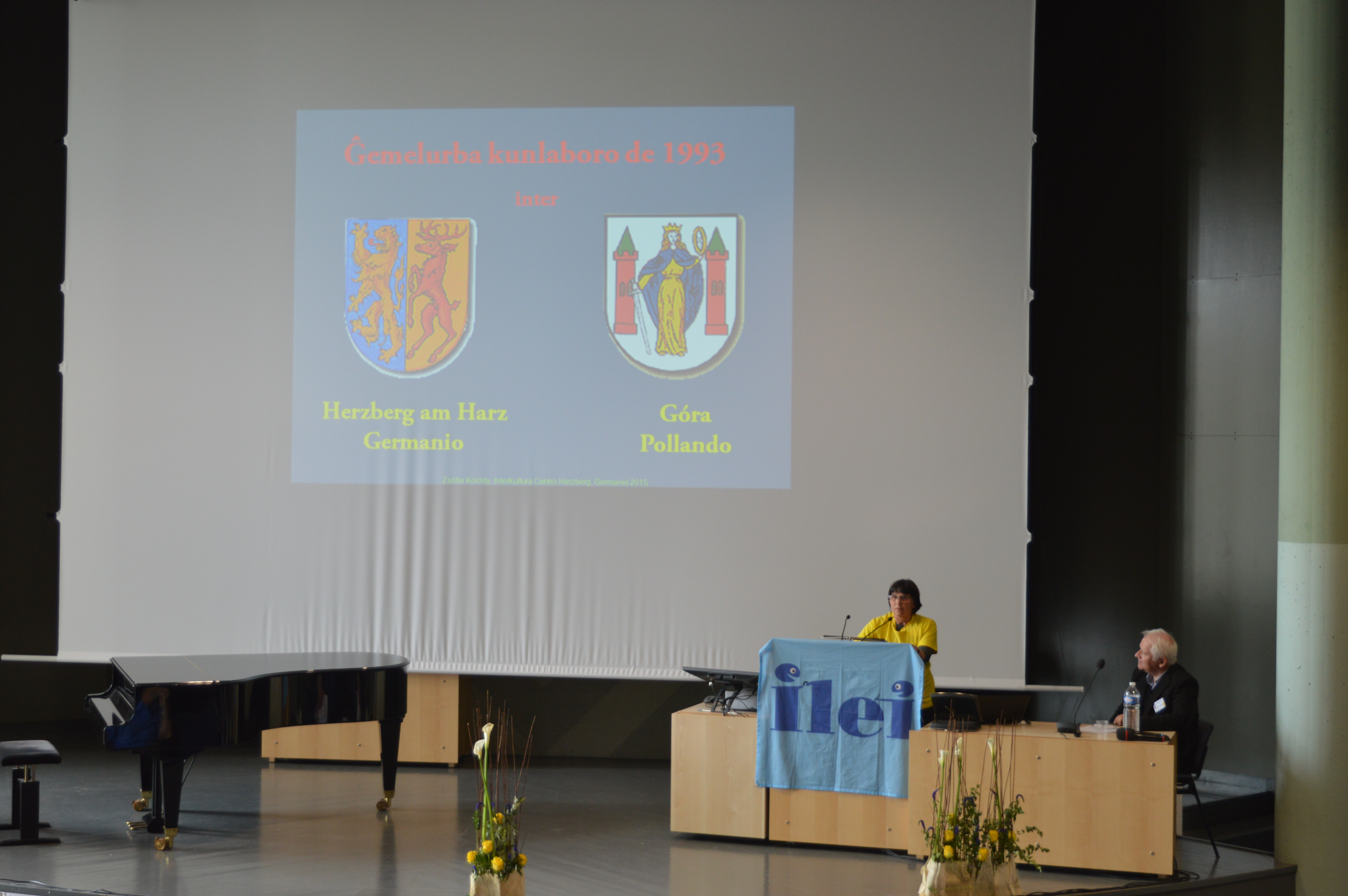 Zsófia Kóródy speaks during the third international conference on Esperanto teachting, canton of Neuchatel, SwitzerlandEsperanto: Zsófia Kóródy parolas dum la tria konferenco pri Esperanto-instruado, Neŭŝatelo, Svislando